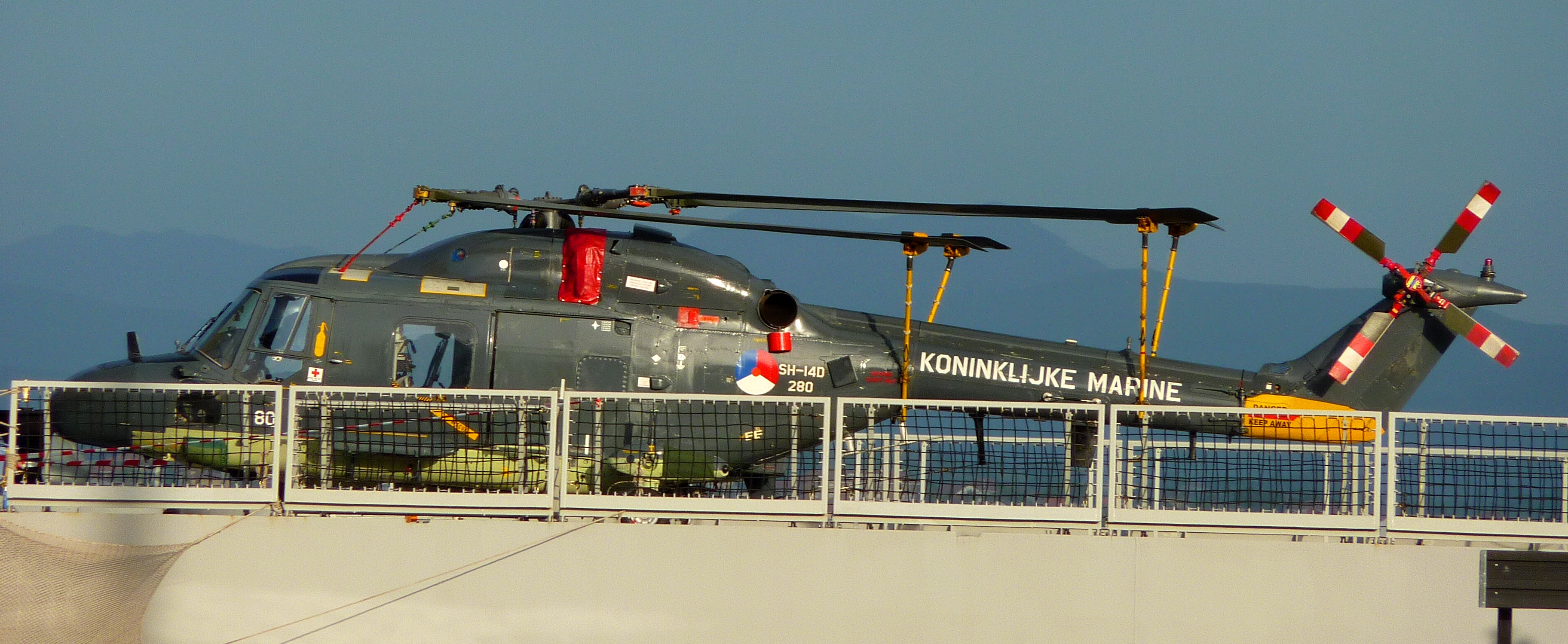 Royal Netherlands Navy Westland Lynx on board the De Zeven Provinciën class frigate "Tromp", F-803.